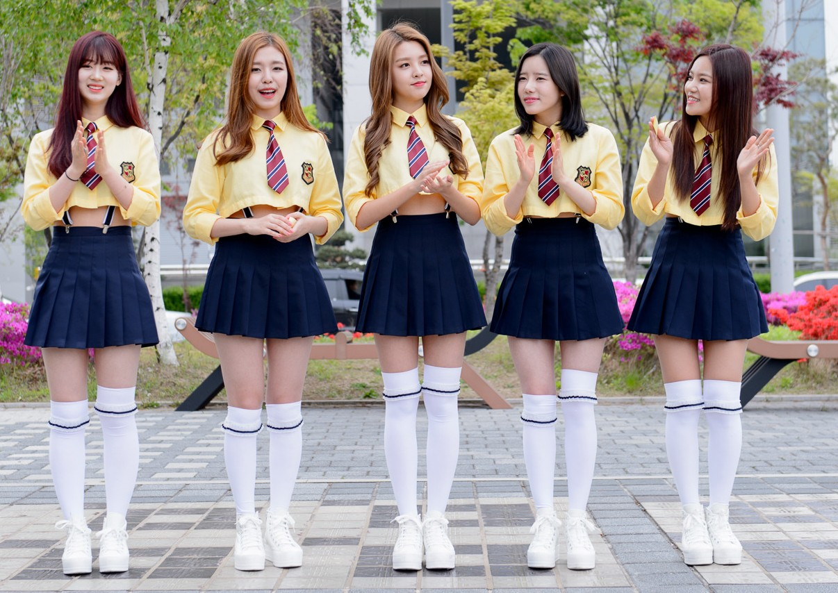 Berry Good at 700th day since debut celebration, 23 April 2016. Left to right: Daye, Gowoon, Sehyung, Taeha and Seoyul.